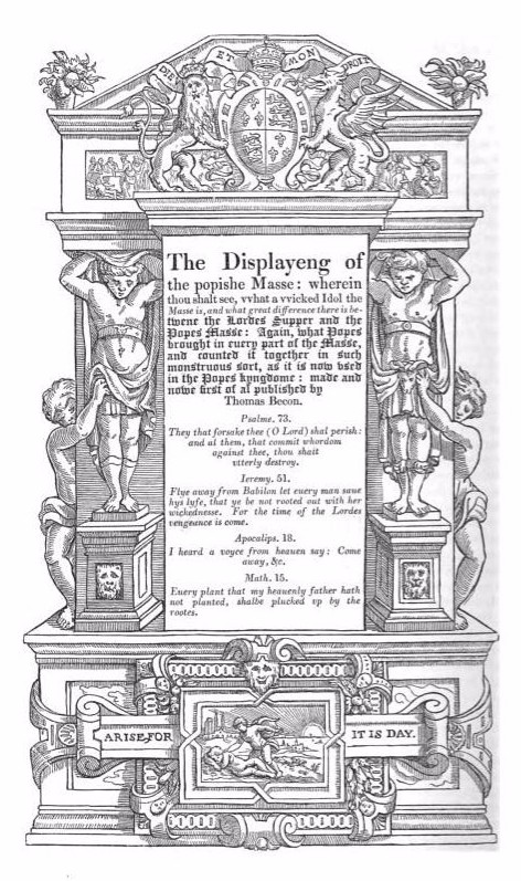 Illustration from Prayers and Other Pieces of Thomas Becon, Volume 4 (1844) edited by John Ayre, for "The Displaying of the_Popish Mass".